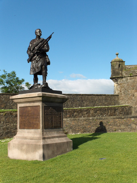 Boer War Memorial, Stirling Castle. Erected by the Argyll and Sutherland Highlanders, in memory of their comrades who gave their lives in the South African War, 1899-1902.